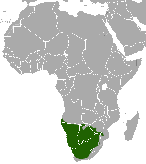 Brown Hyaena (Hyaena brunnea) range